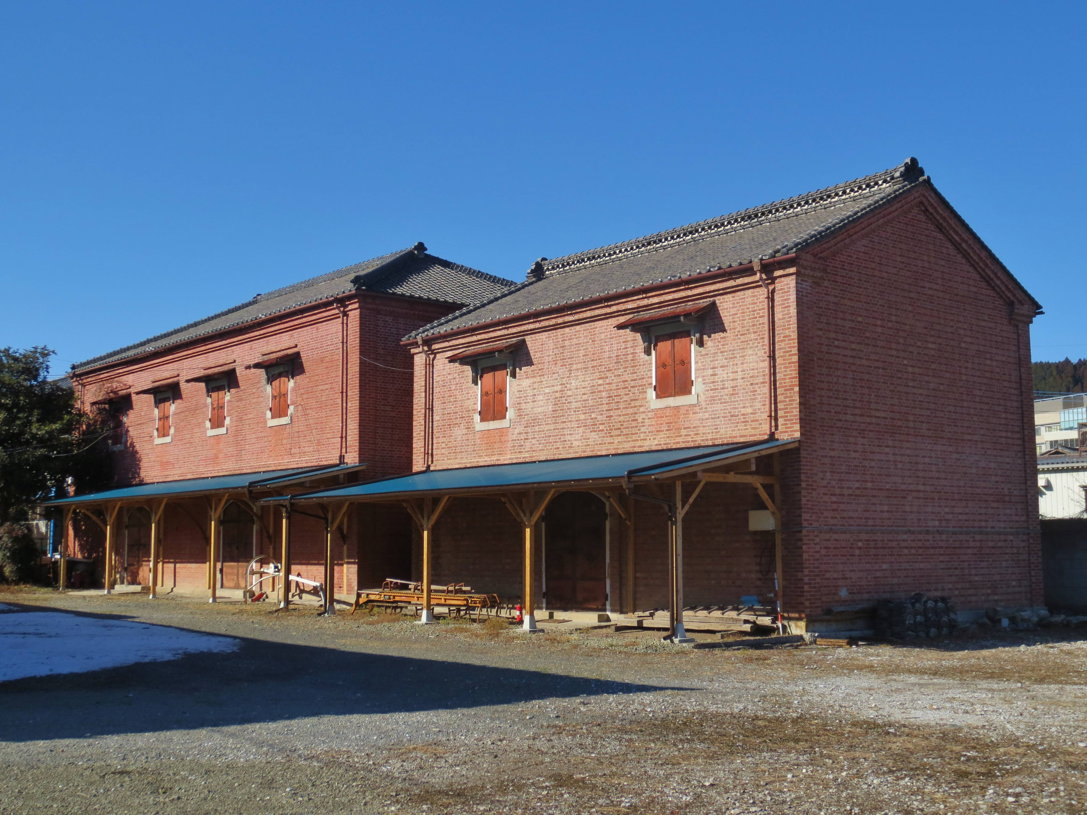 Shimonita warehouse (Shimonita, Gunma).